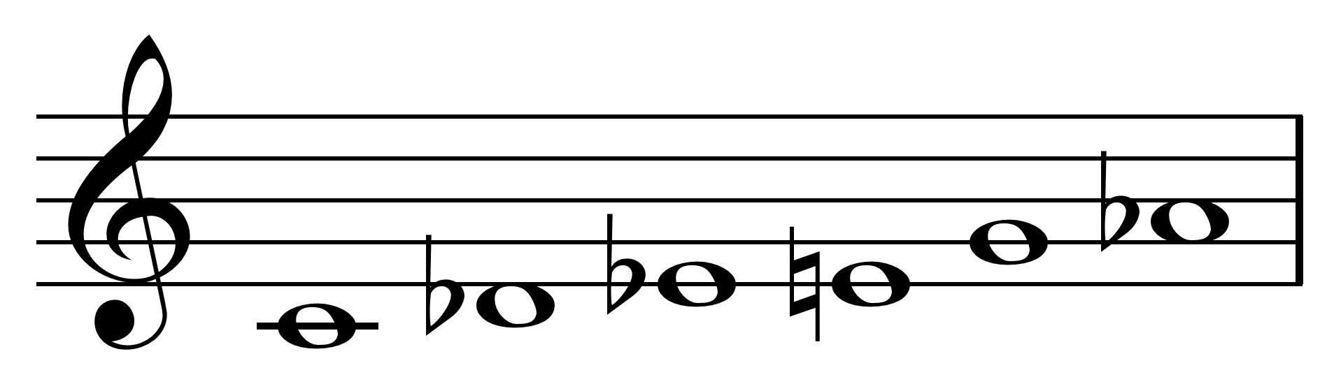 6-Z19 hexachord. Created by Hyacinth (talk) 00:37, 13 October 2010 using Sibelius 5.